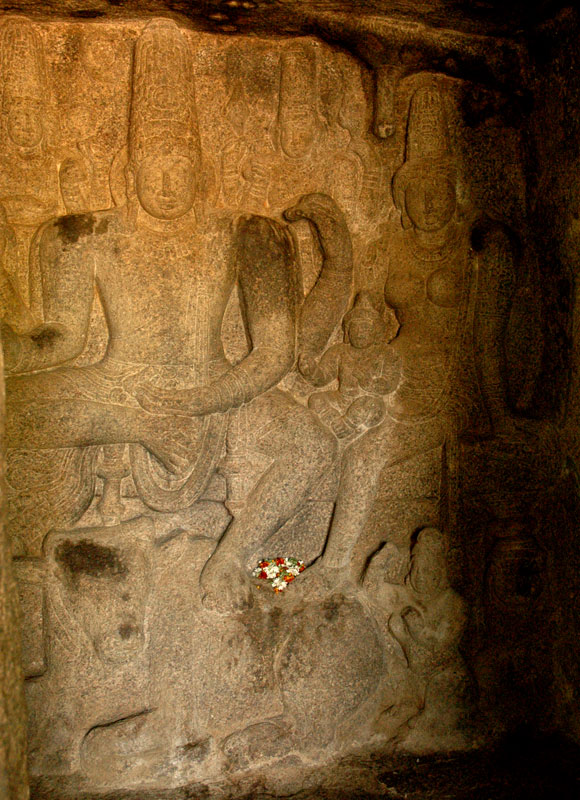 Mahishasura Mardini cave. Mahabalipuram, India